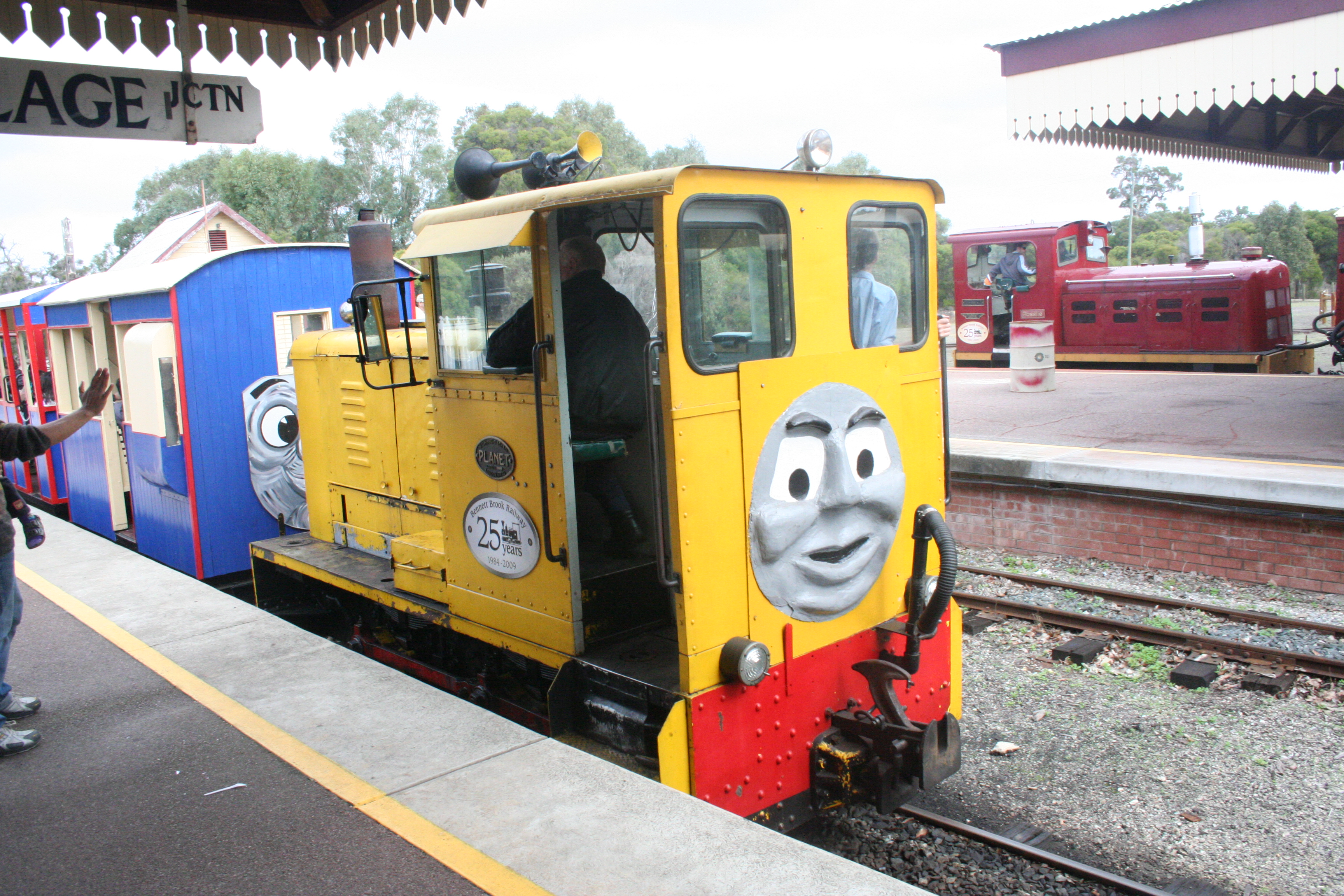 The Planet #1 at the Bennet Brook Railway's Thomas the Tank Engine Day, may 2010